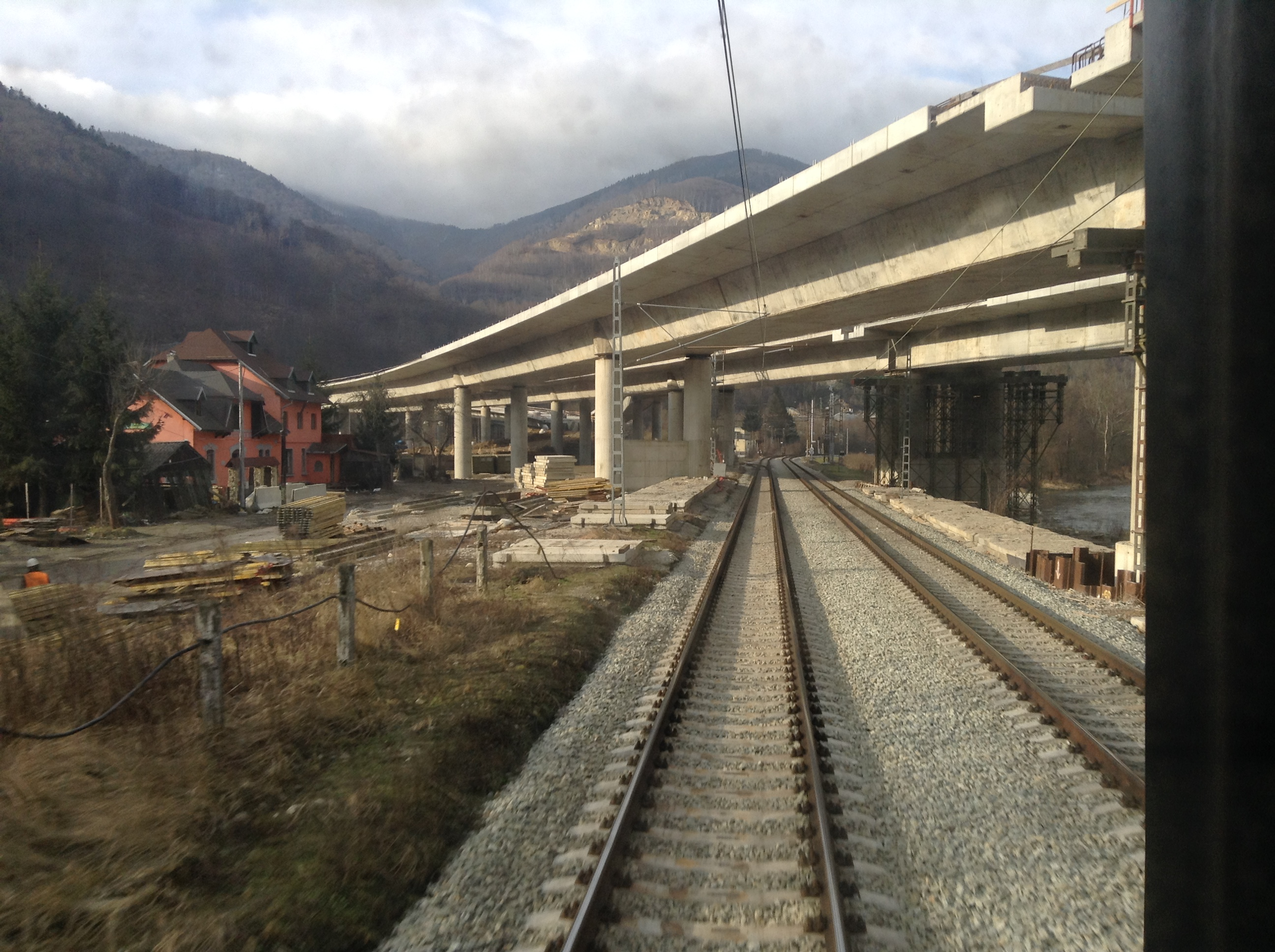 Construction of Highway D1 over line 180 by the eastern portal of Višňové Tunnel. January 2015.